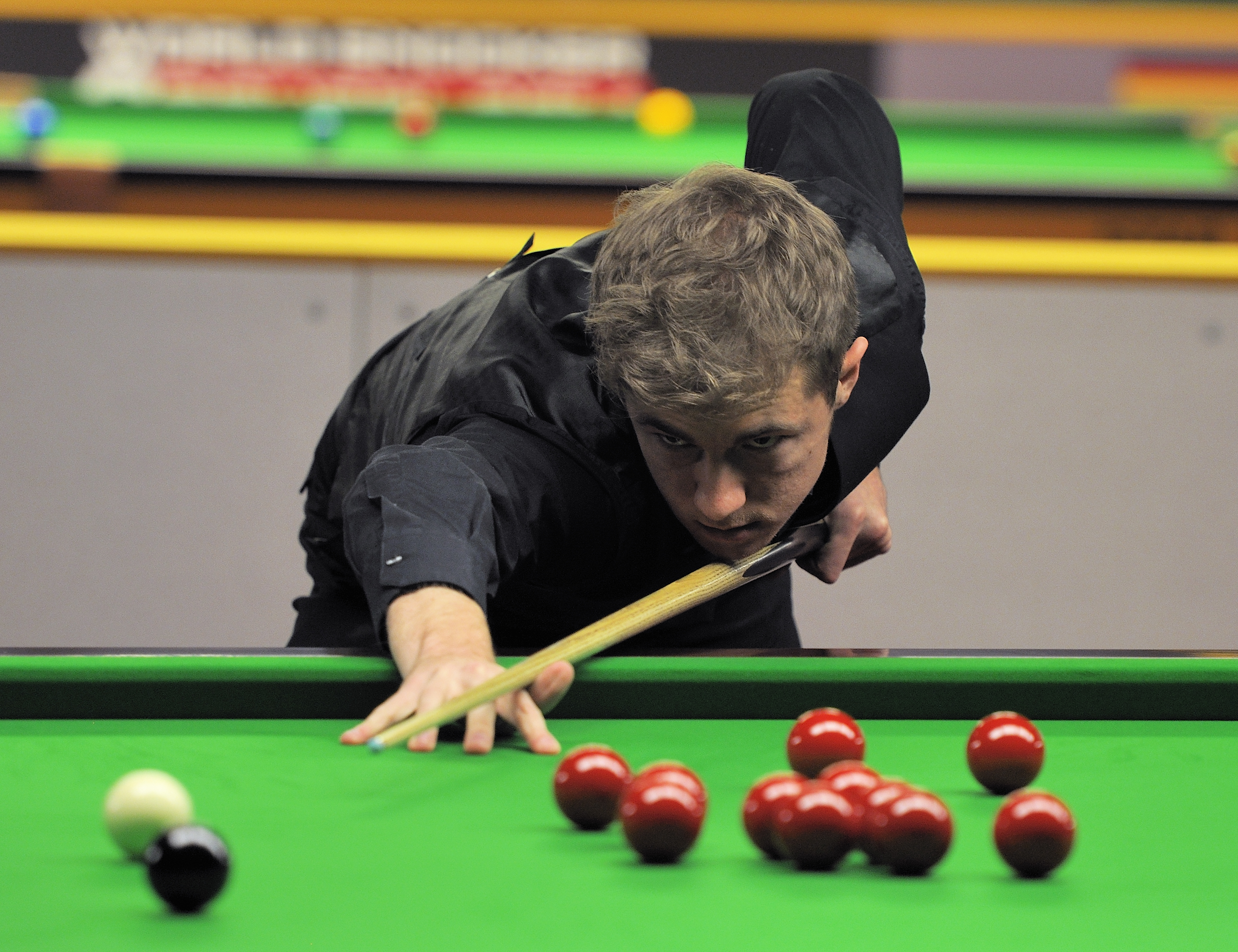 Picture taken in Berlin during the Snooker German Masters in 2014. Jack Lisowski.